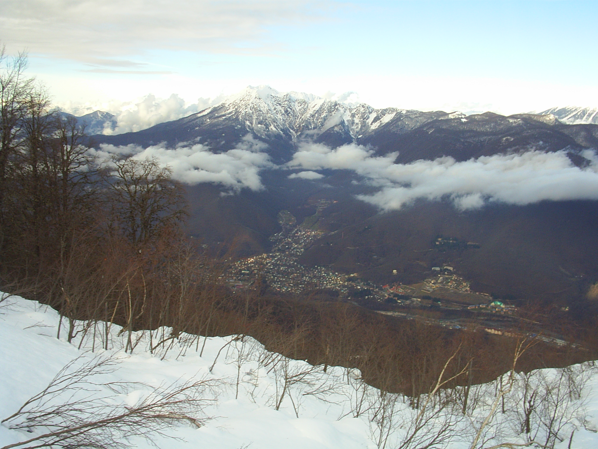 View on Krasnaya Polyana from Mount Aibga